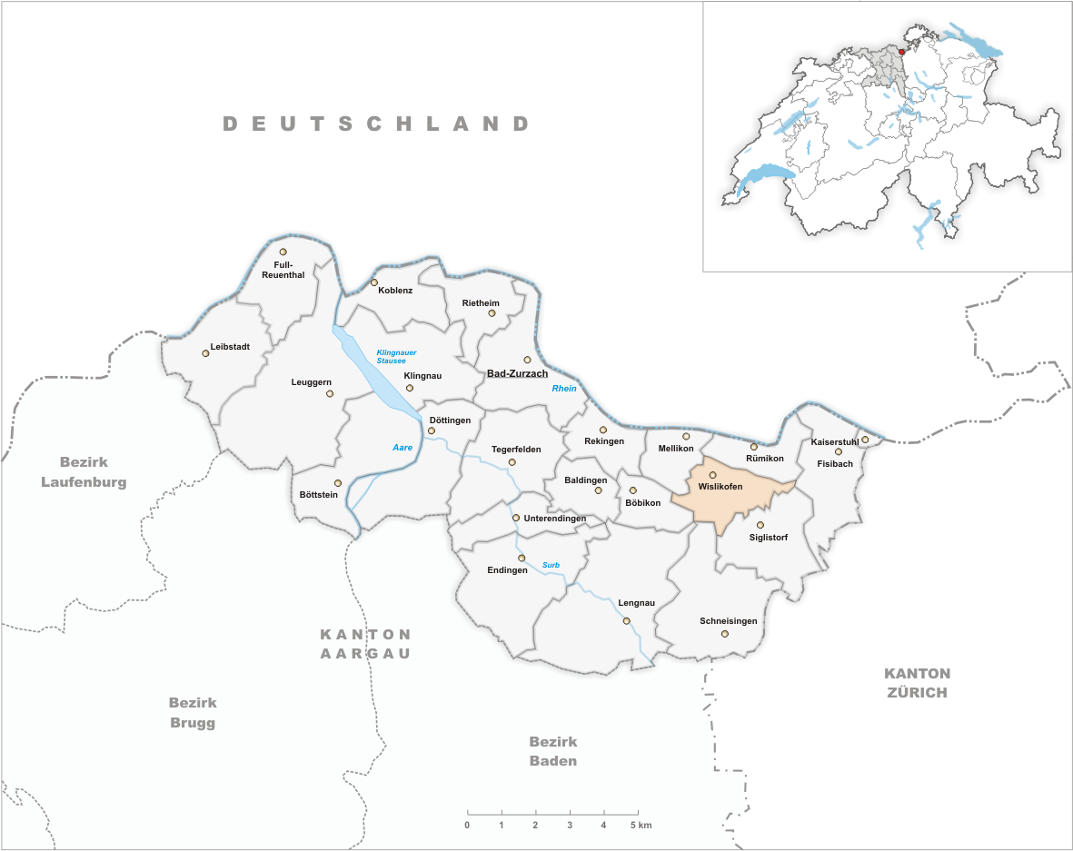 Municipality Wislikofen